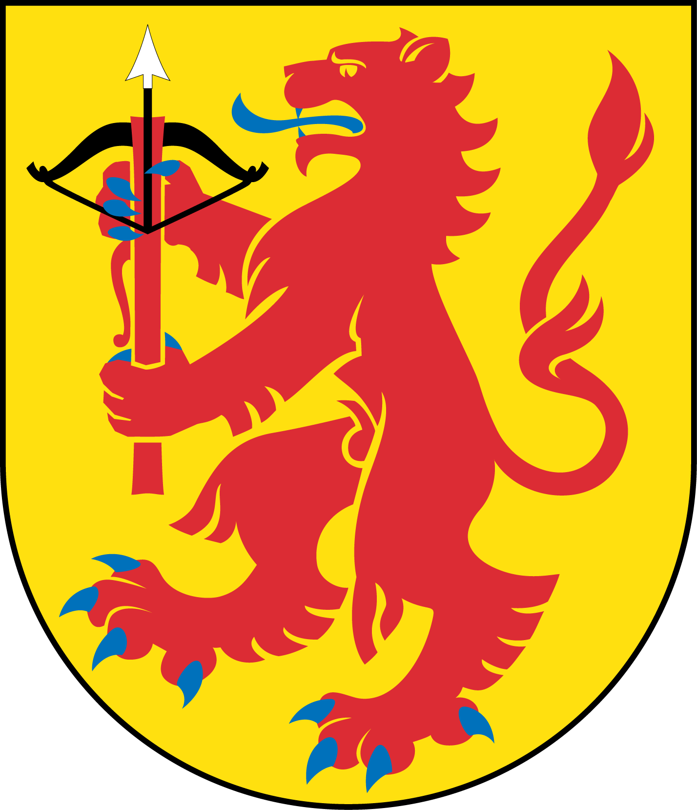 Coat of arms of the province of Småland, Sweden. Painted by Vladimir A. Sagerlund when he was the heraldic artist at the National Archives of Sweden (Riksarkivet). This representation of a coat of arms is potentially different from the one used by the armiger (municipality or organisation) in question. = ⇑“Sable, a lionrampant or” This coat of arms was drawn based on its blazon which – being a written description – is free from copyright. Any illustration conforming with the blazon of the arms is considered to be heraldically correct. Thus several different artistic interpretations of the same coat of arms can exist. The design officially used by the armiger is likely protected by copyright, in which case it cannot be used here.Individual representations of a coat of arms, drawn from a blazon, may have a copyright belonging to the artist, but are not necessarily derivative works. Further information: Commons:Coats of arms and Template:Coa blazon